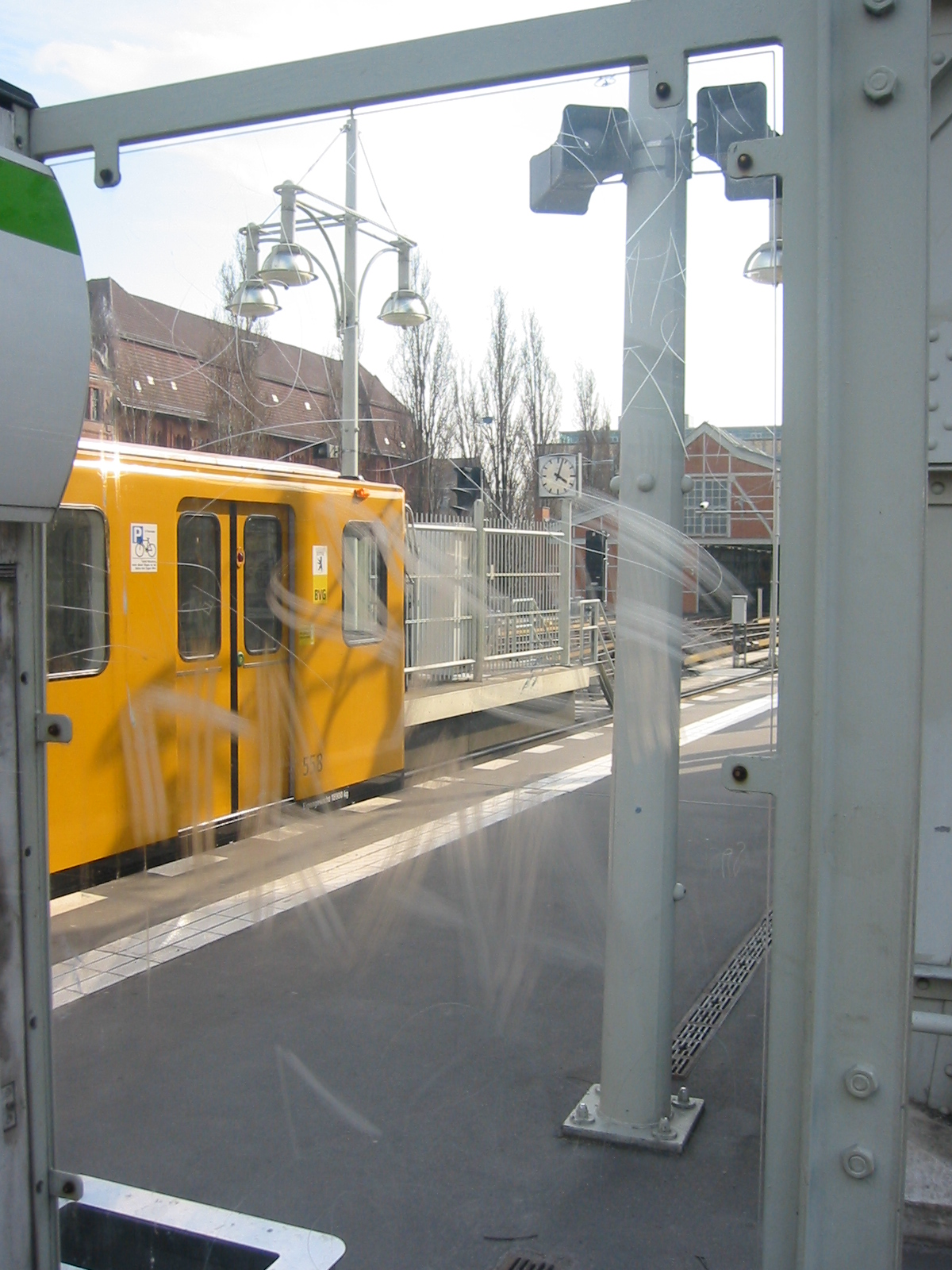 scratching u-bahn berlin recorded by User:Nicor